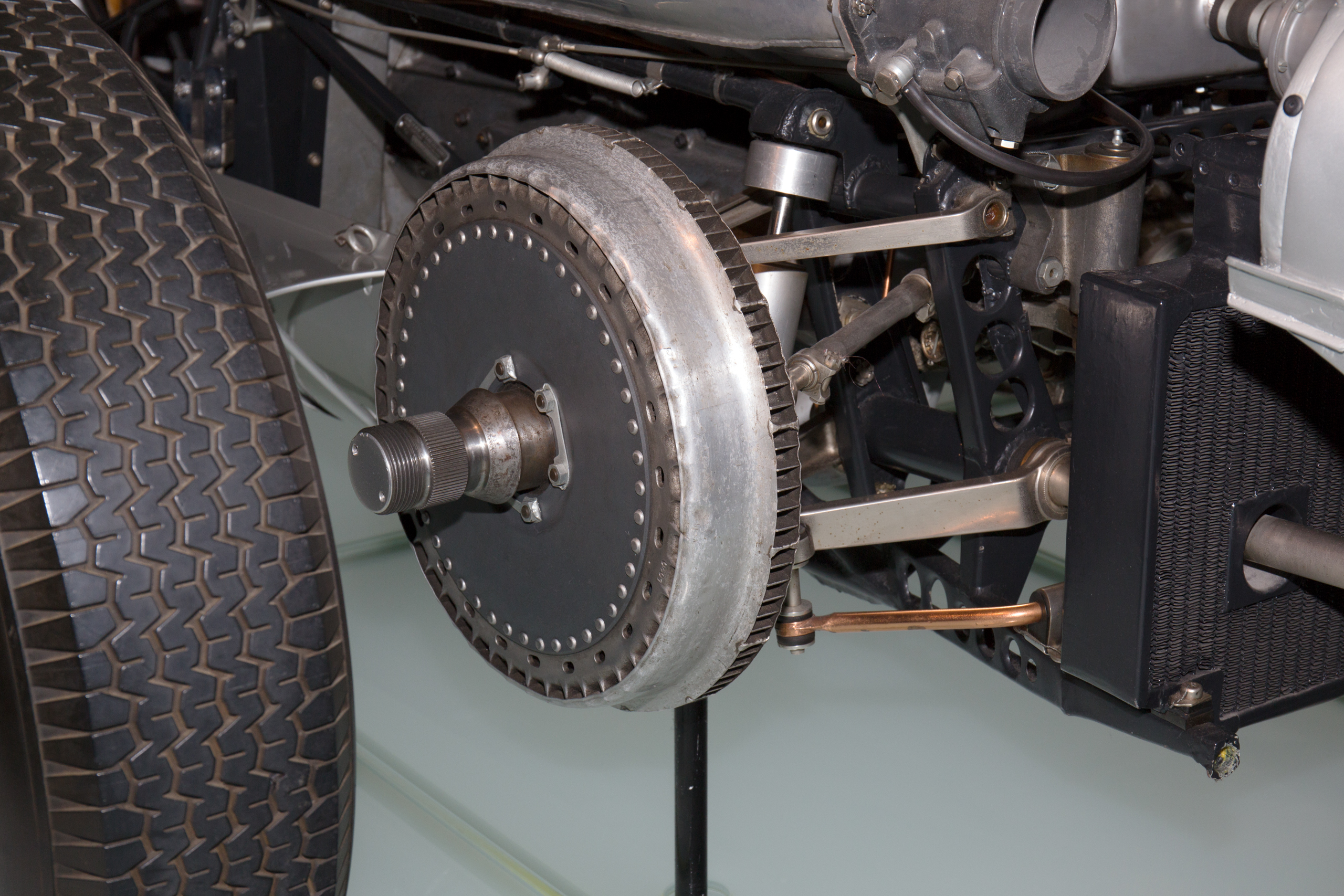 Mercedes-Benz W196R (exploded view), front 'outboard' drum brake